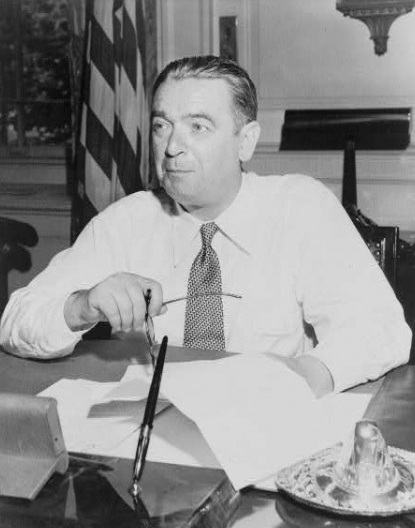 William O'Dwyer, New York City Mayor